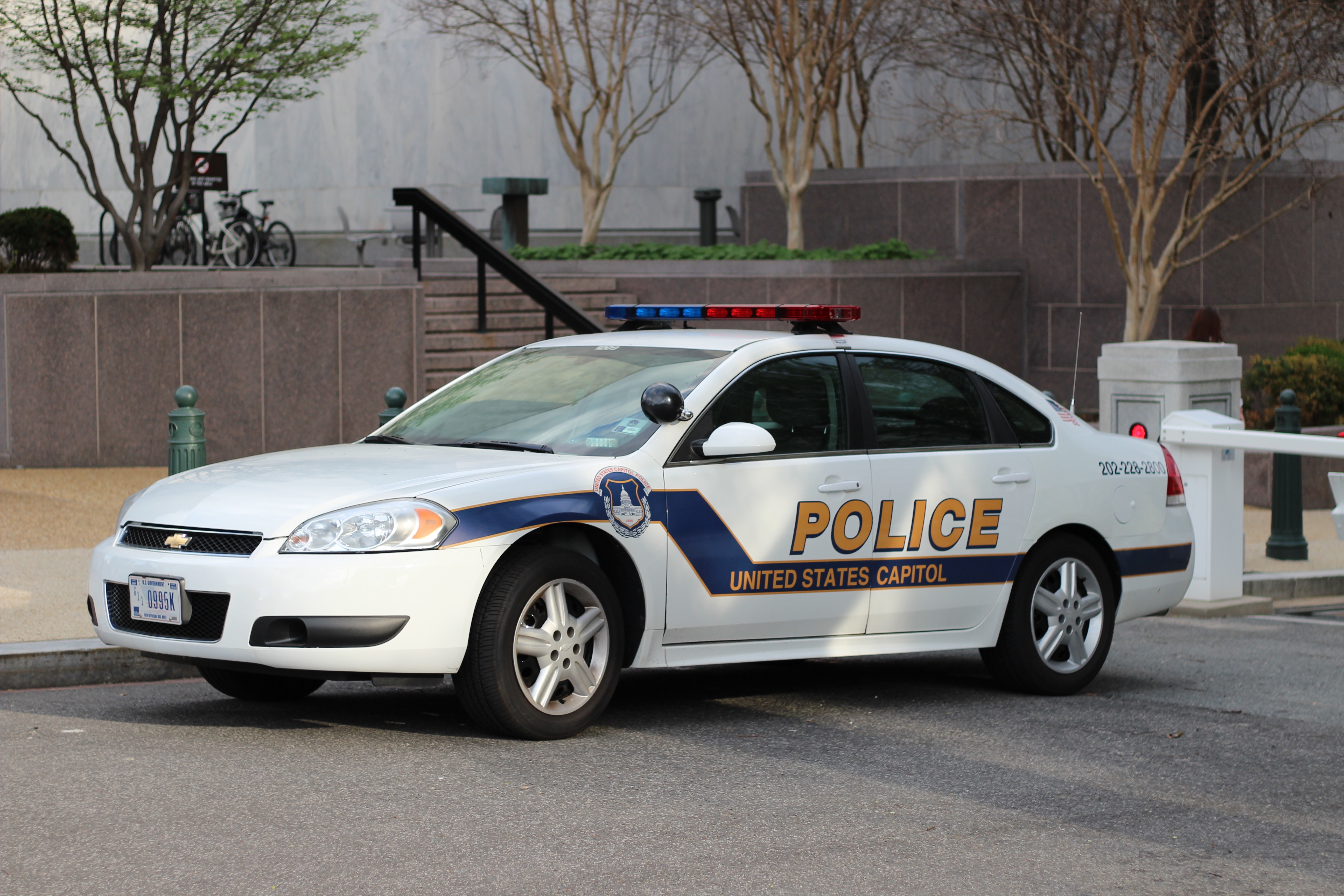 United States Capitol Police Impala